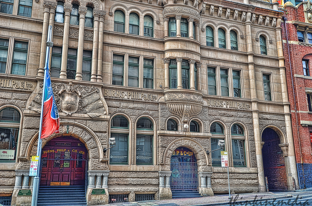 Burns Philp building (edited with colour enhancement).